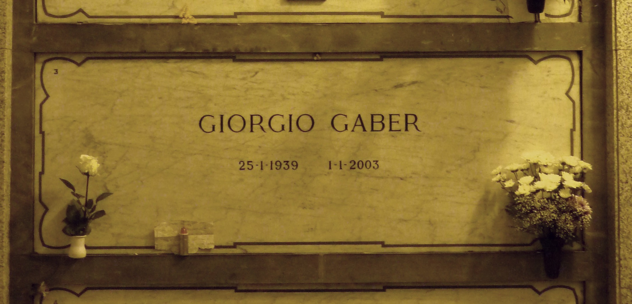 The grave of Italian musician and actor Giorgio Gaber at the Monumental Cemetery of Milan, Italy.